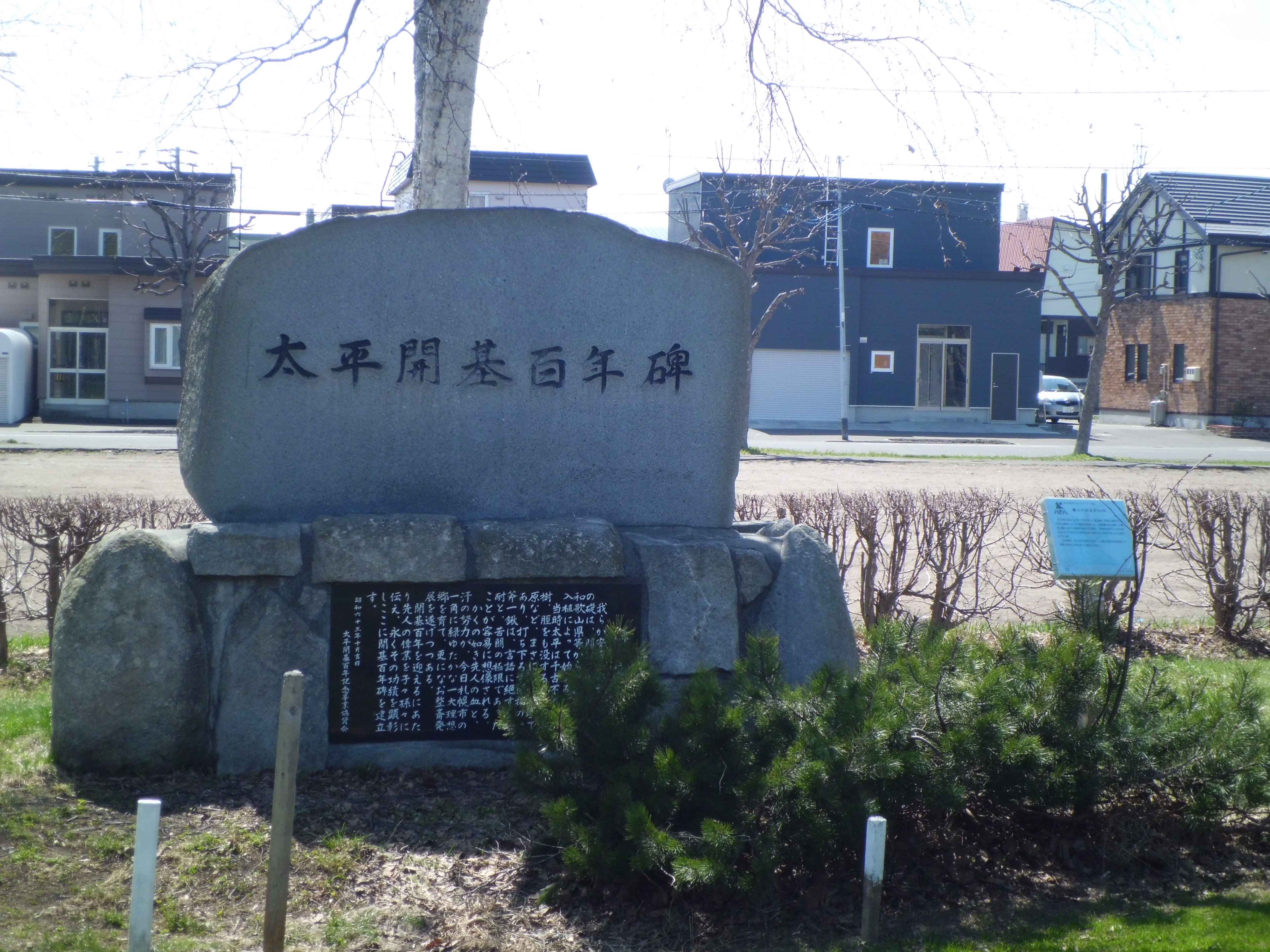 Taihei Centennial Monument